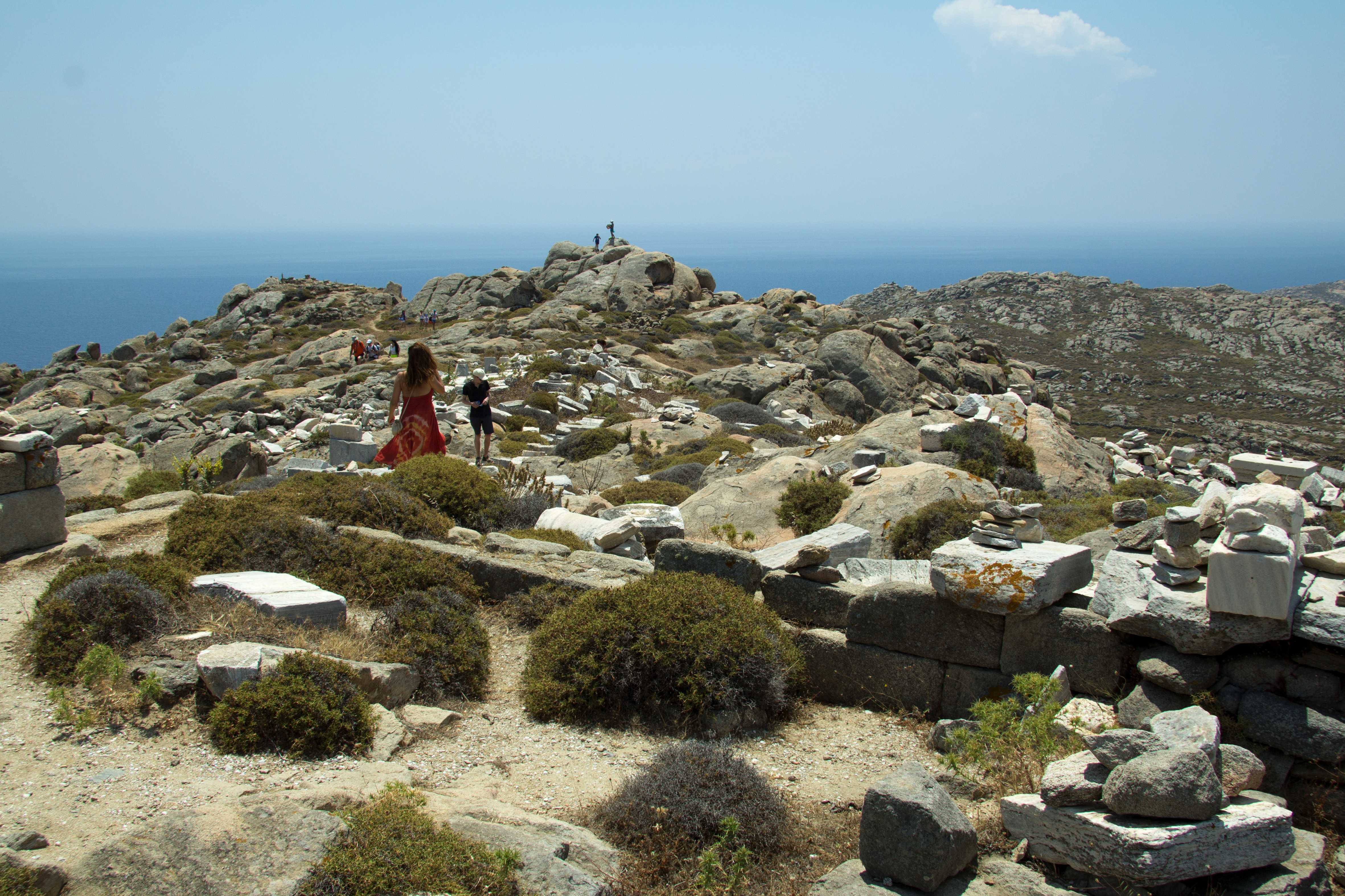 After the peak of Kynthos on Delos.